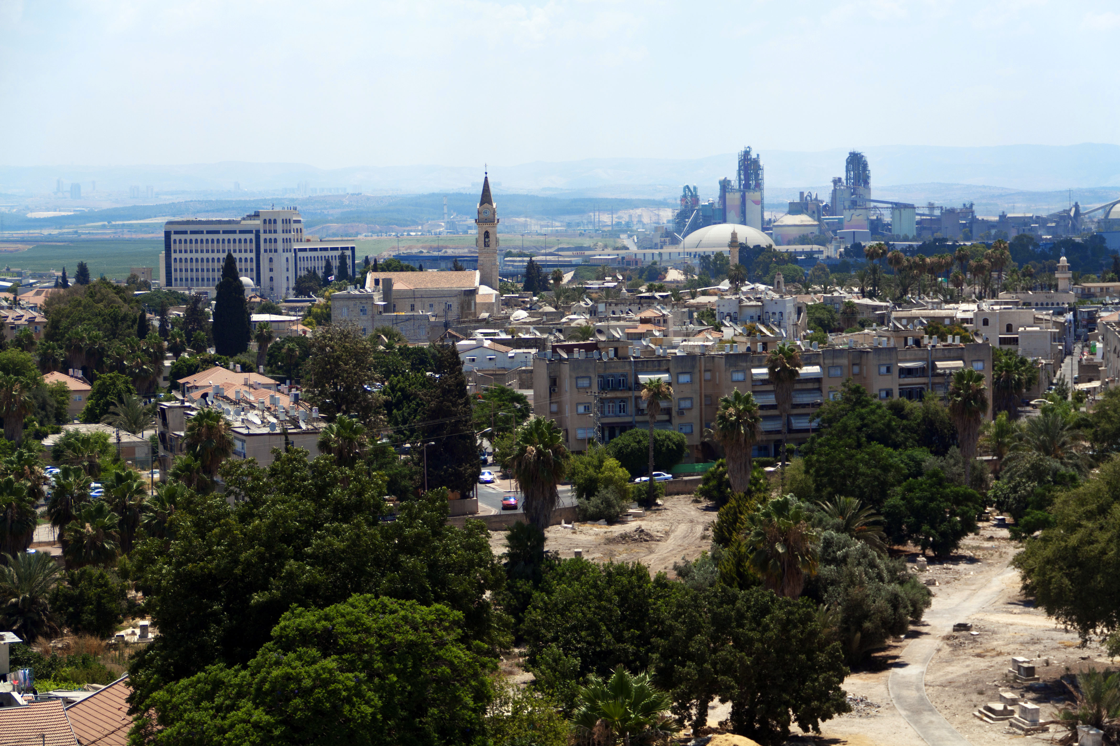 Ramla, view of the White Tower